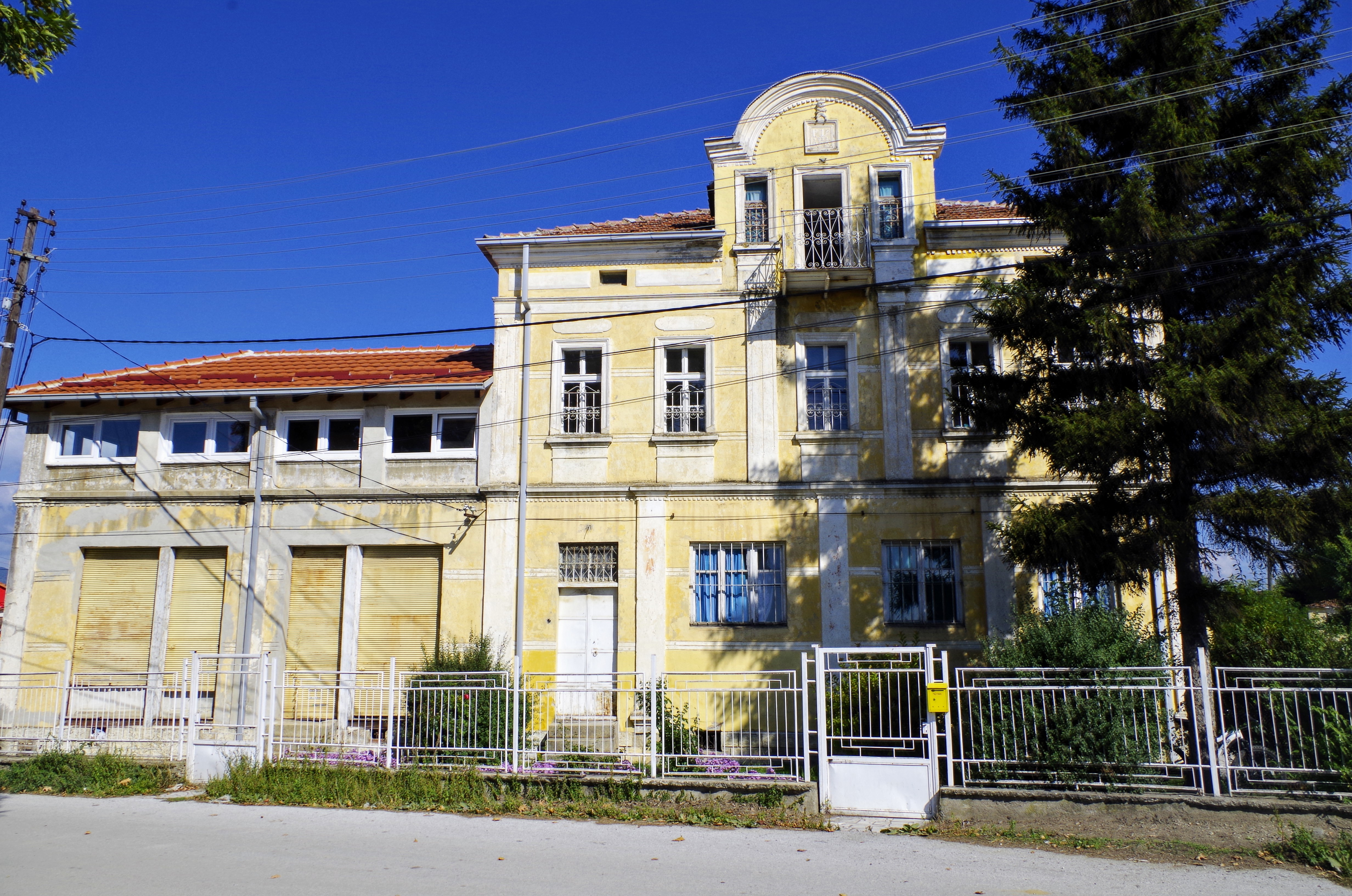 View of the village Carev Dvor